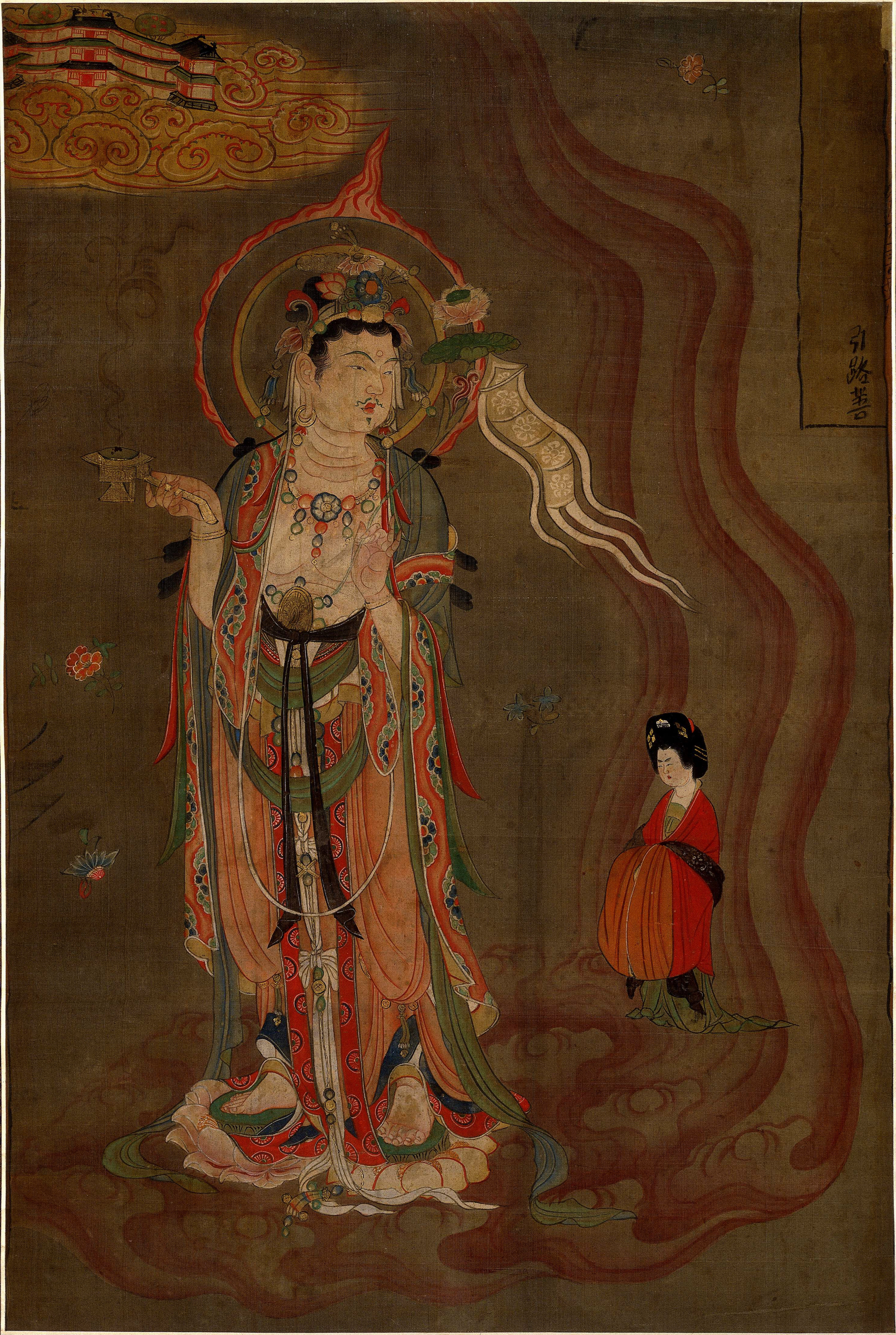 Bodhisattva Leading the Way. The image was discovered at Dun Huang in the "1000 Buddha cave" (cave 17). The bodhisattva is leading a woman to the Pure Land on the golden cloud in the upper left corner. His right hand contains an incense burner. His left hand contains a lotus flower.